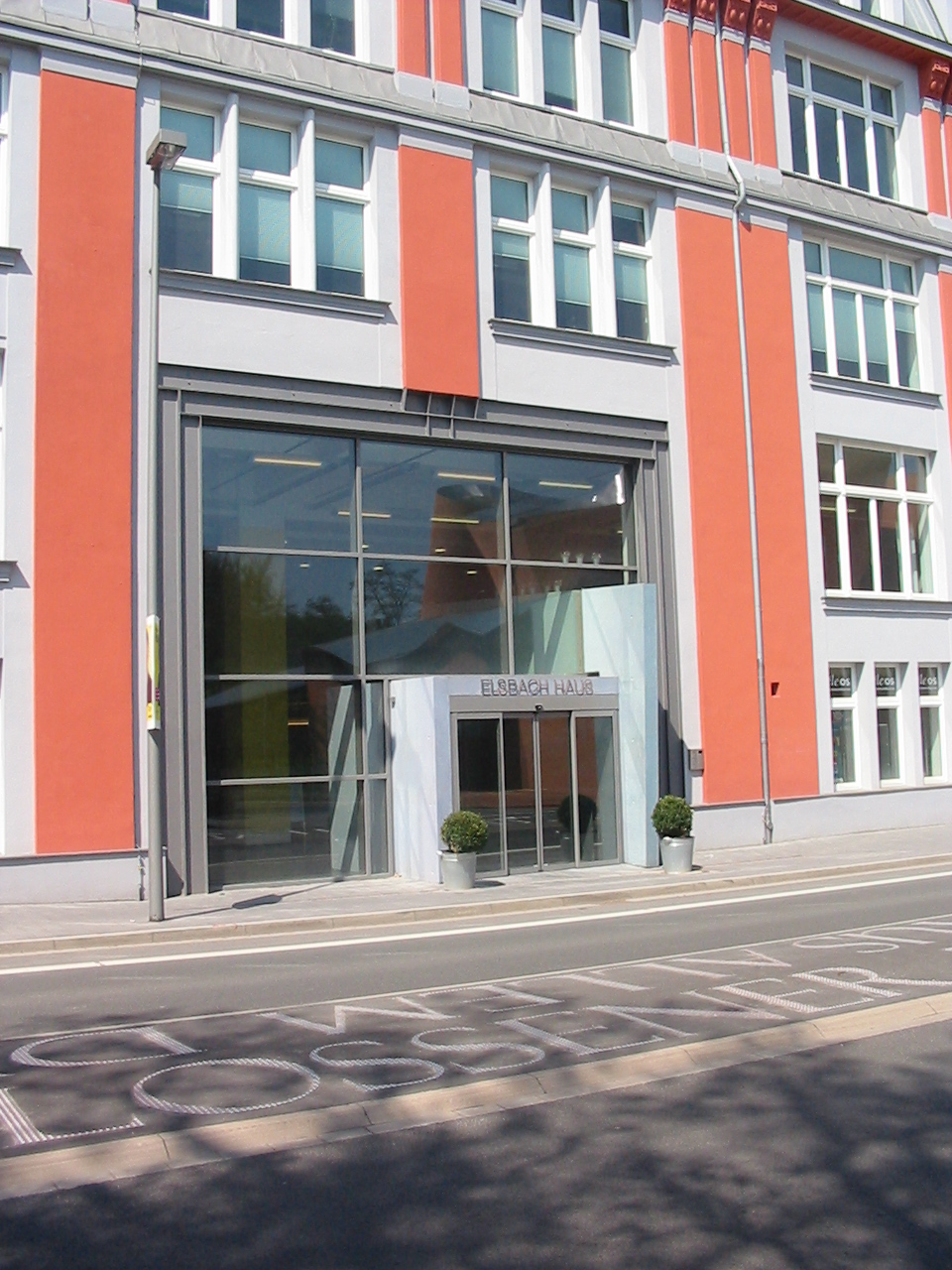 Elsbachhaus in town of Herford, District of Herford, North Rhine-Westphalia, Germany. In front of the Elsbachhouses' entrance you can see parts of a sculpture with text extracts from poem Der Ball of Rainer Maria Rilke.